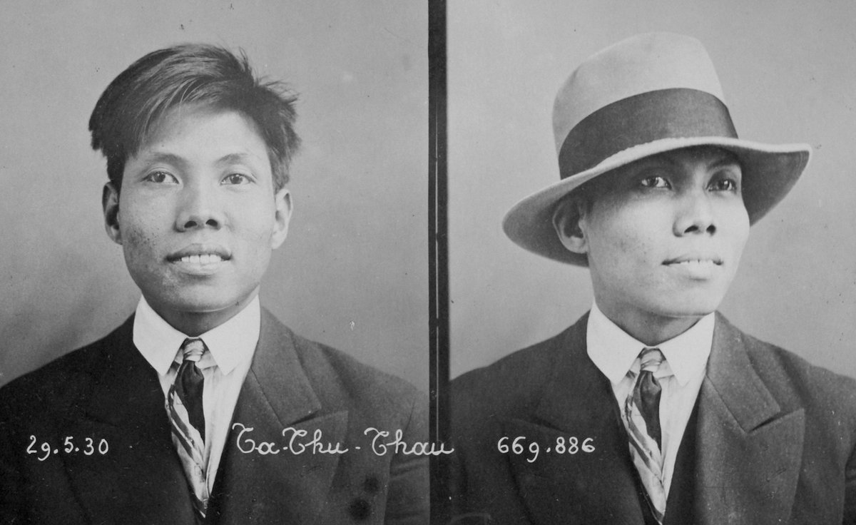 Police mug shot of Ta Thu Thau taken after his arrest following a protext in Paris in 1930